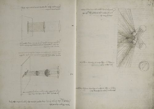 Paris Manuscript C, Folio 18v and 19r, by Leonardo da Vinci, Institut de France